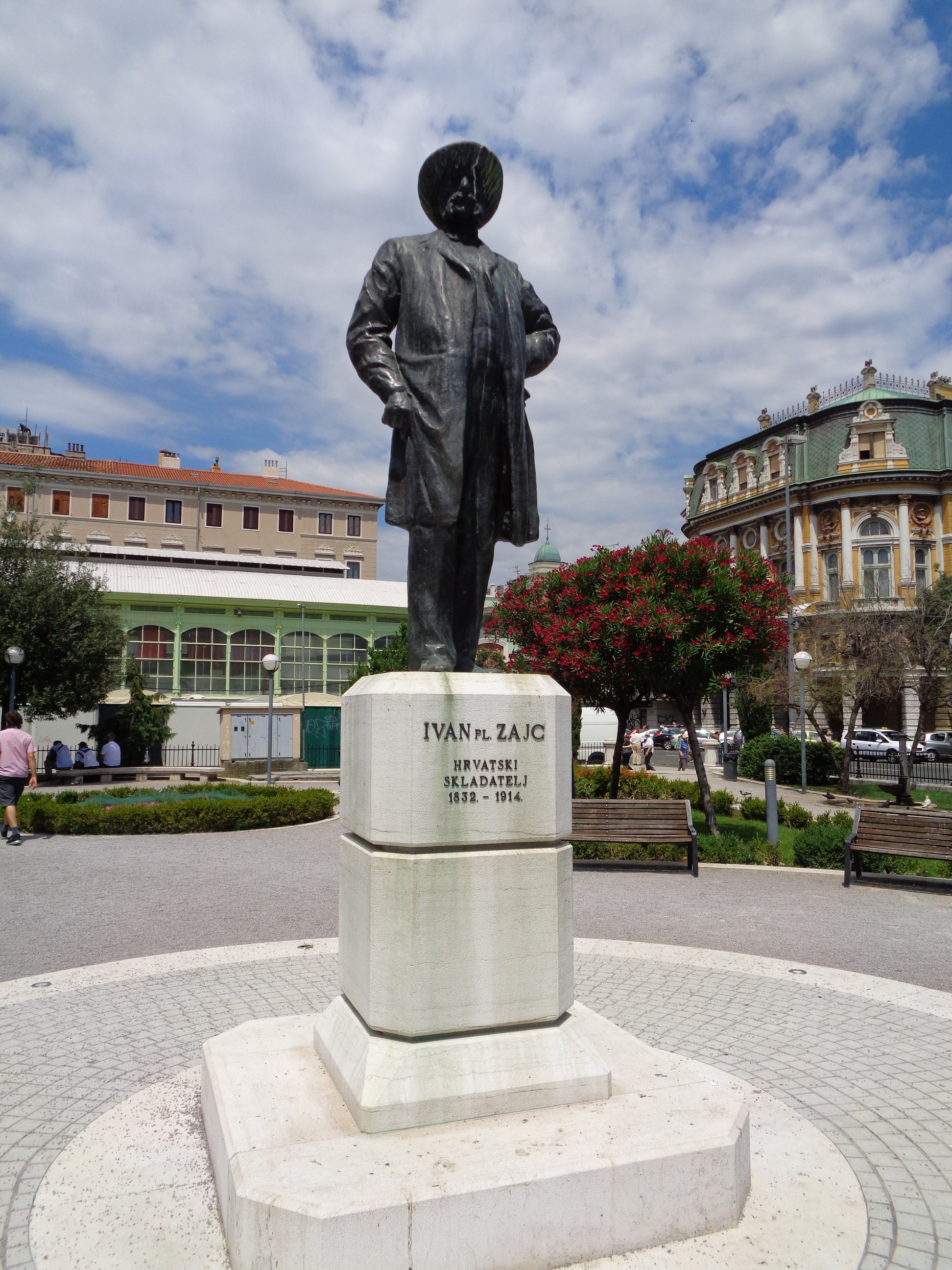 Ivan edler Zajc, Croatian composer - statue in Rijeka